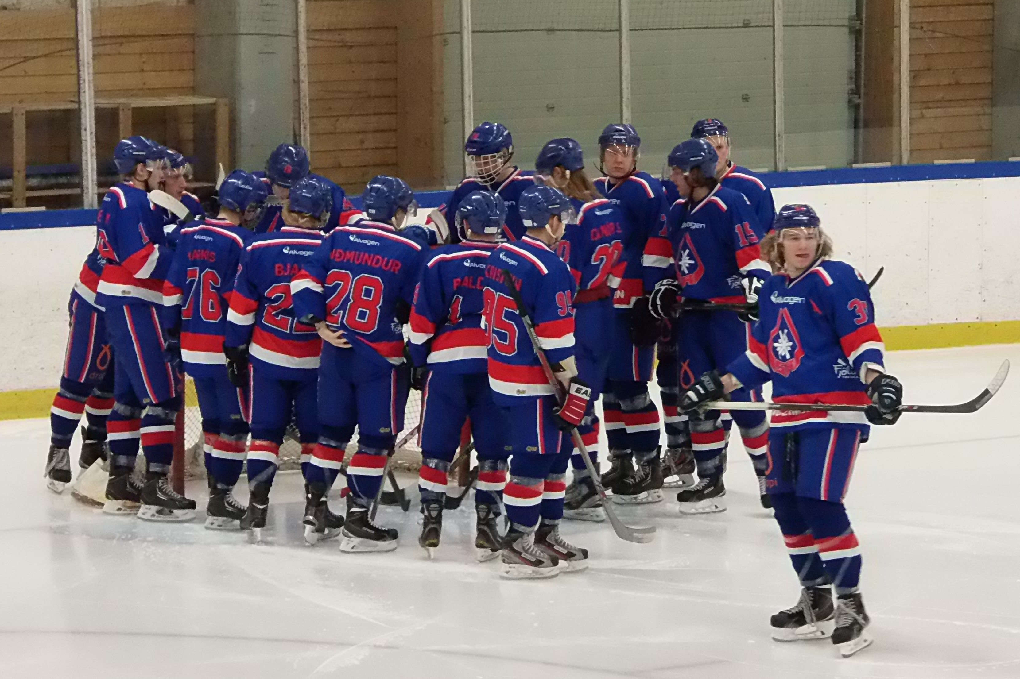 Skautafélag Reykjavíkur right before the start of the game against UMFK Esja at Skautahöllin Laugardal.